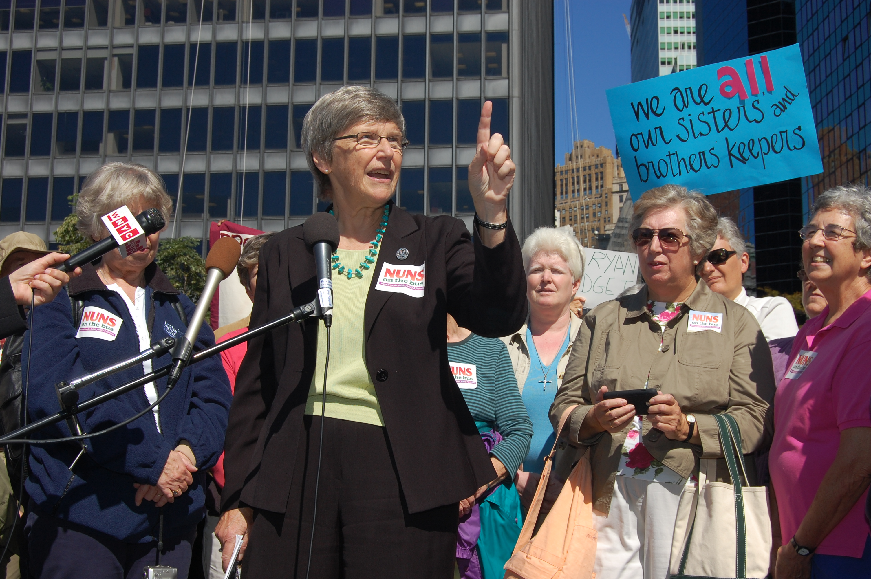 Sister Simone Campbell of "Nuns On The Bus" speaking in lower Manhattan - the Whitehall / South Ferry terminal. This was part of a "Nuns On The Ferry" event. Shortly after this speech Campbell and a contingent of nuns took the ferry to Staten Island where they spoke a second time, on the steps of Borough Hall.